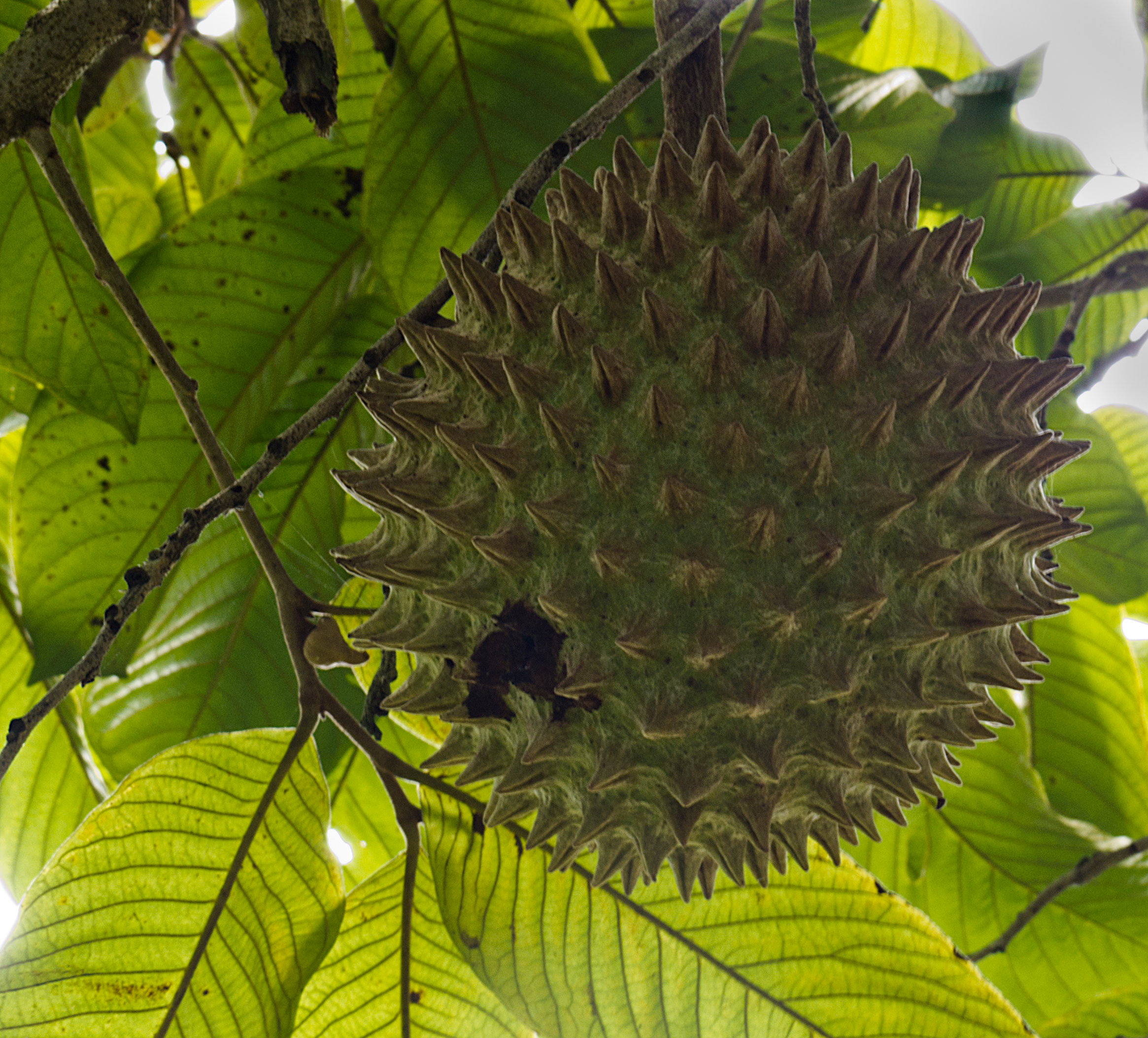 Annona Purpurea, growing on a tree in El Salvador. Called Soncuya, Sincuya(El Salvador), Cabeza de Negro, Ilama, etc. in other places.